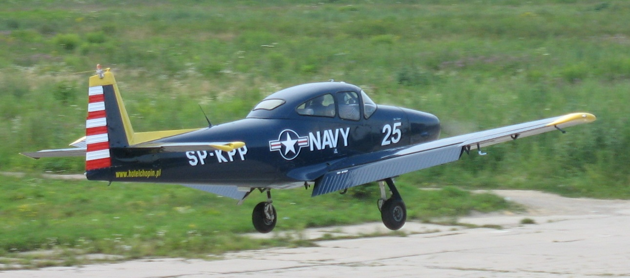 A Ryan Navion during landing at an airshow in Kraków, Poland.